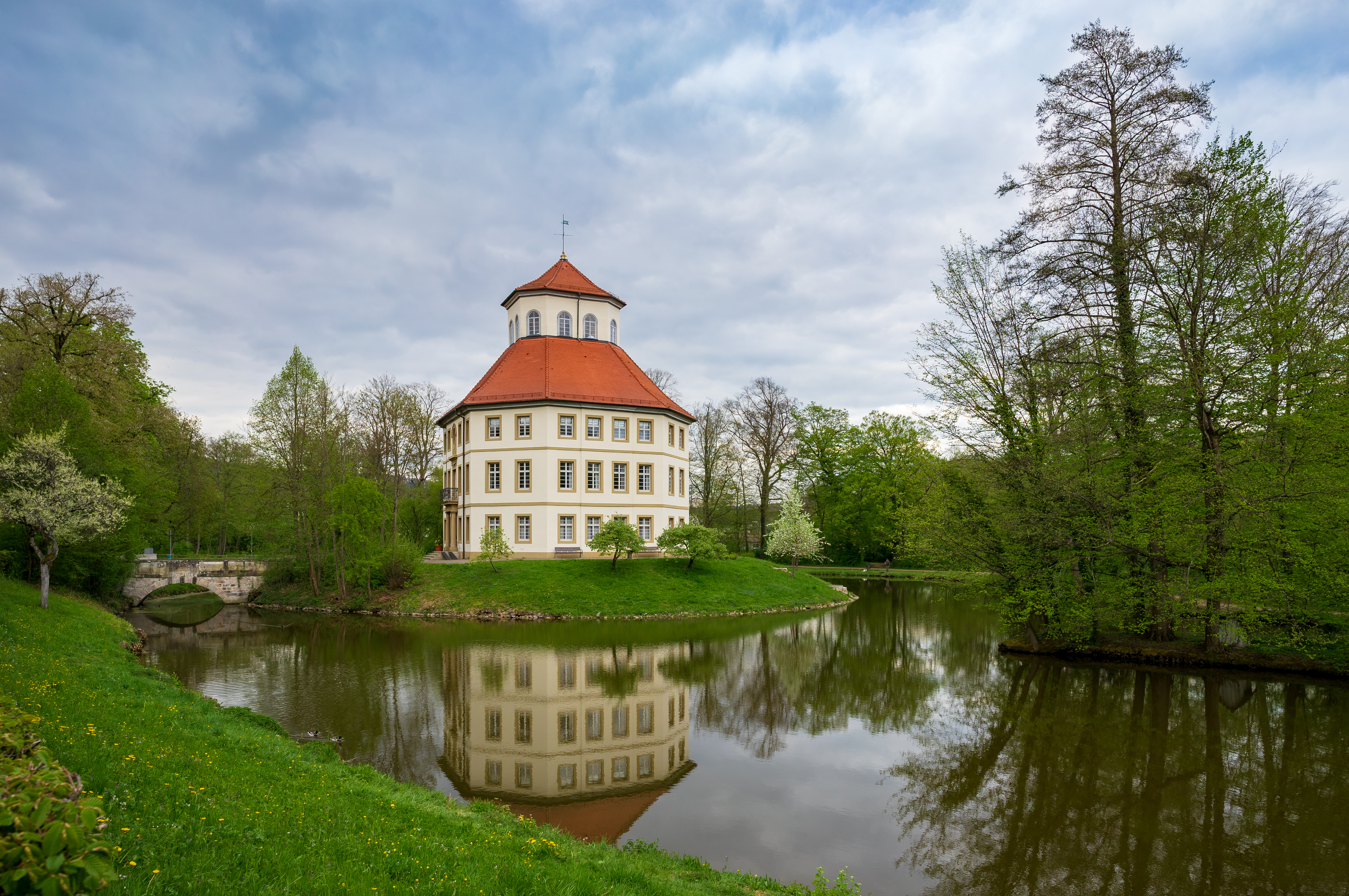 Oppenweiler, Germany: The octogonal residential castle set on a lake, built in 1782, today the townhall. Seen from south south-west from the castle gardens which were laid out at the same time. At the left you can see the bridge which is the only access to the castle.